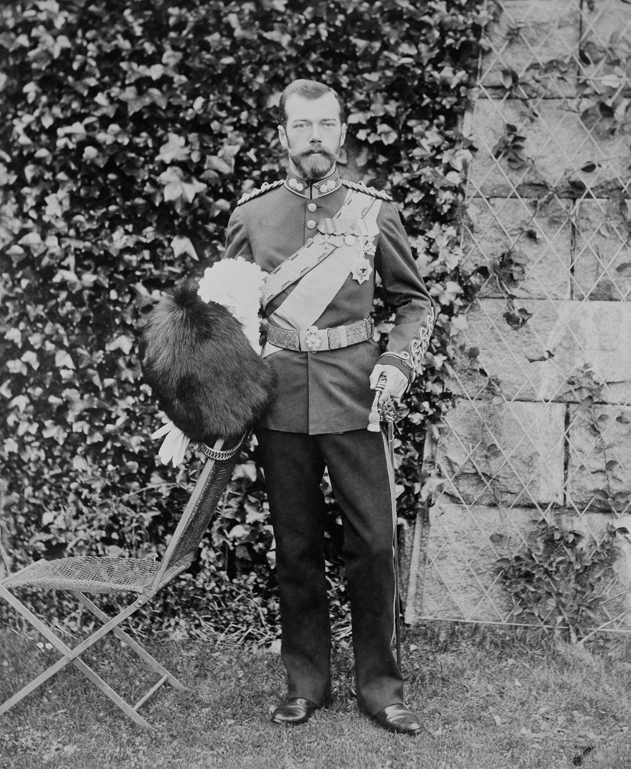 Photograph of Nicholas II, Emperor of Russia standing outside Balmoral. He is wearing British military uniform and is holding a bearskin hat in his right hand and a sword in his left. There is a wall partially covered with ivy behind him and a chair to the left. In 1896 Nicholas II, his consort Alexandra Feodorovna and his eldest daughter Grand Duchess Olga Nikolaevna visited Queen Victoria at Balmoral. Alexandra Feodorovna was a granddaughter of the Queen.